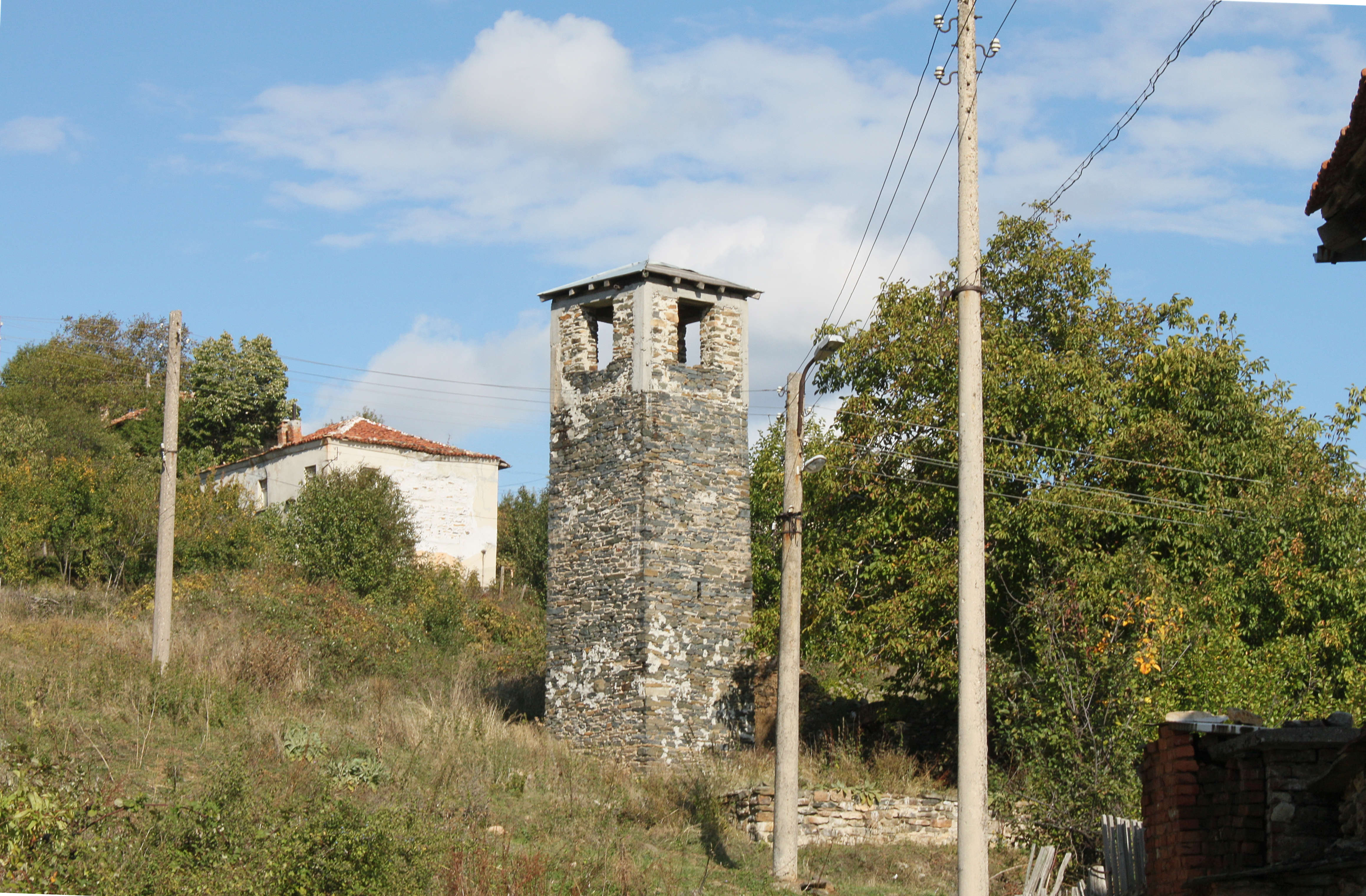 Popsko, a village in the Rhodope Mountains, Bulgaria